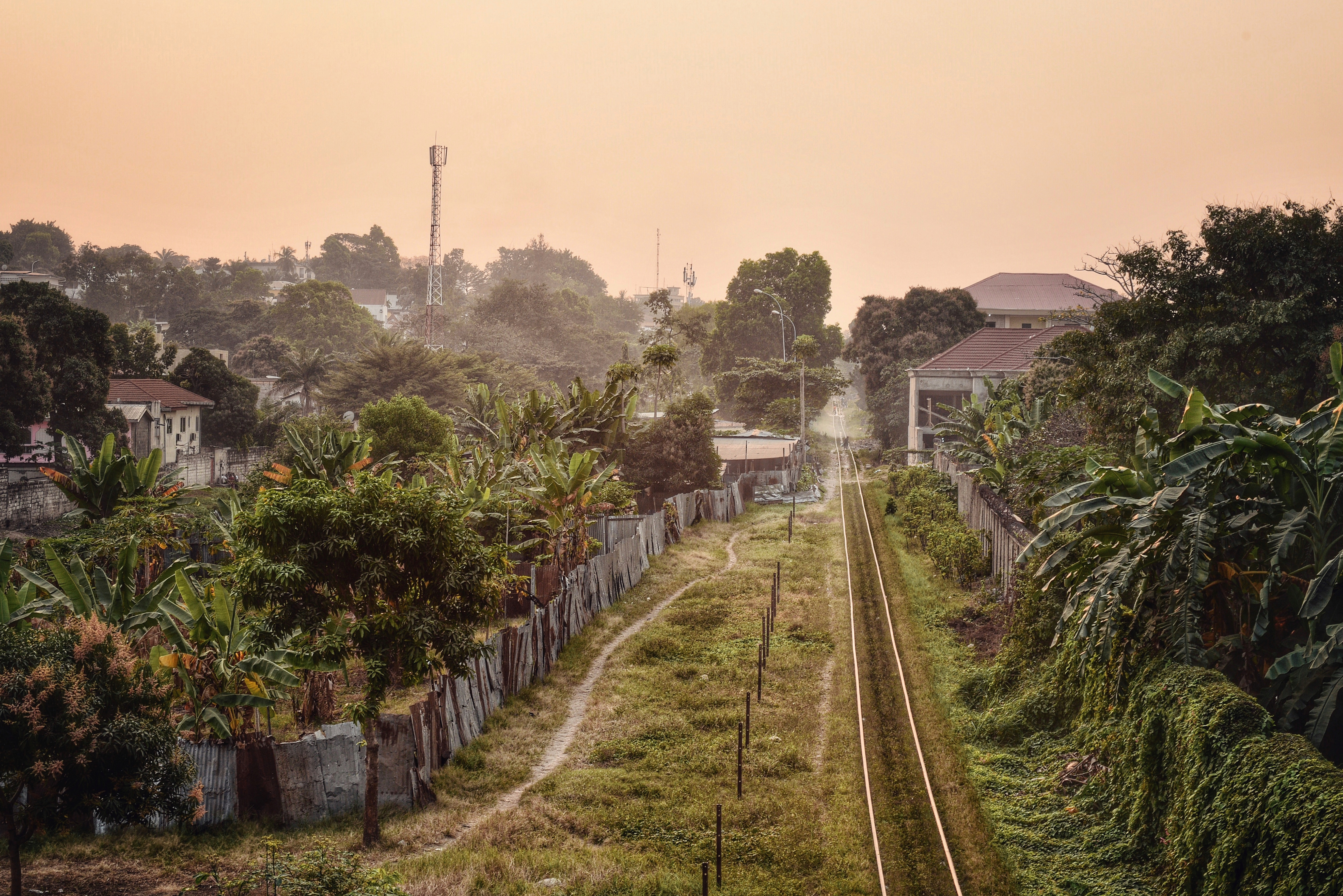 Brazzaville rails, Rail transport in the Republic of the Congo